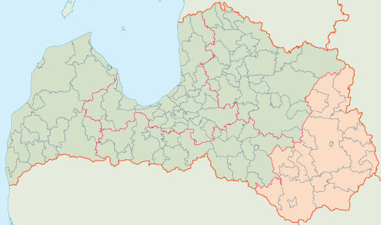 Location map of Latgale Region, Latvia.